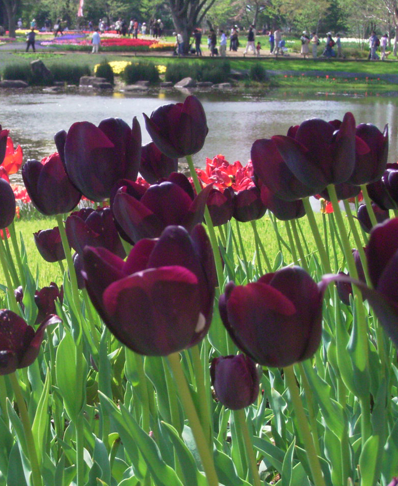 Single Late Tulipa 'Black Horse'; Hybridized by H. van Galen; Year of Registration or Introduction: 1998